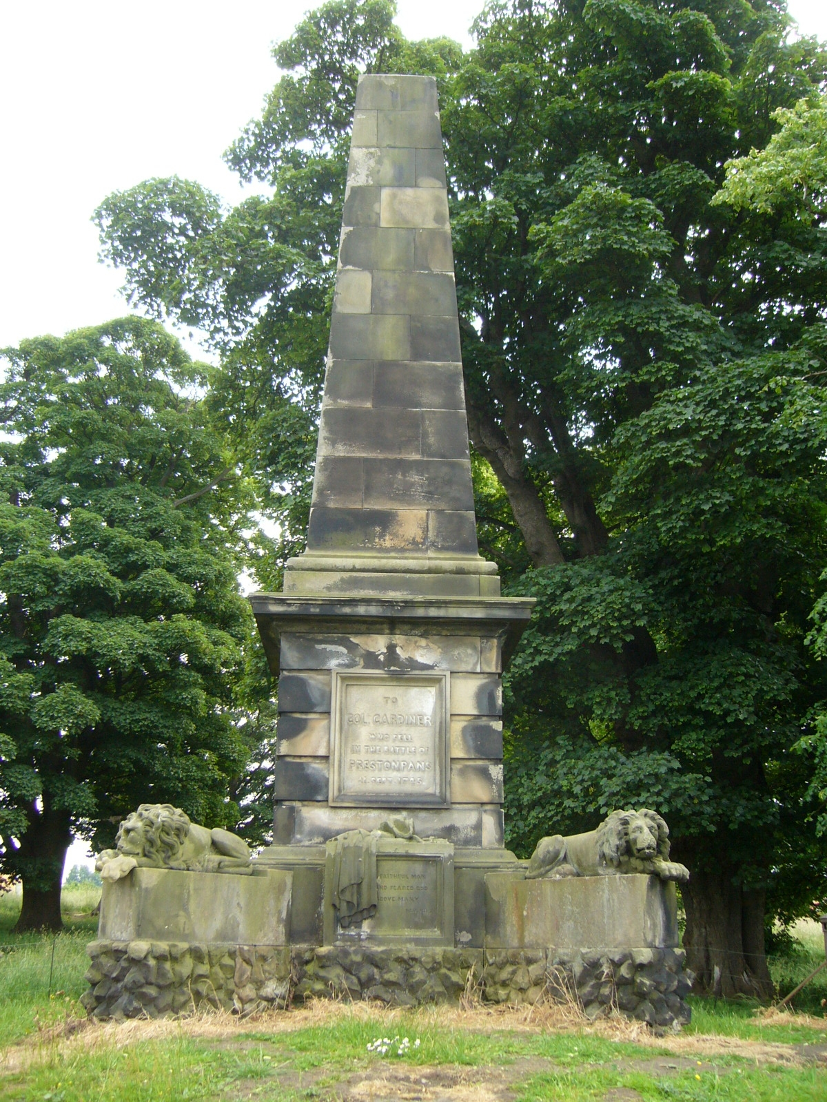 Monument to a Colonel of Dragoons, killed at the Battle of Prestonpans in 1745.